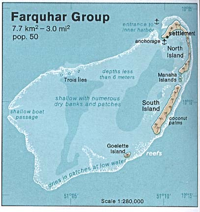 Map of Farquhar Atoll, Outer Islands of Seychelles